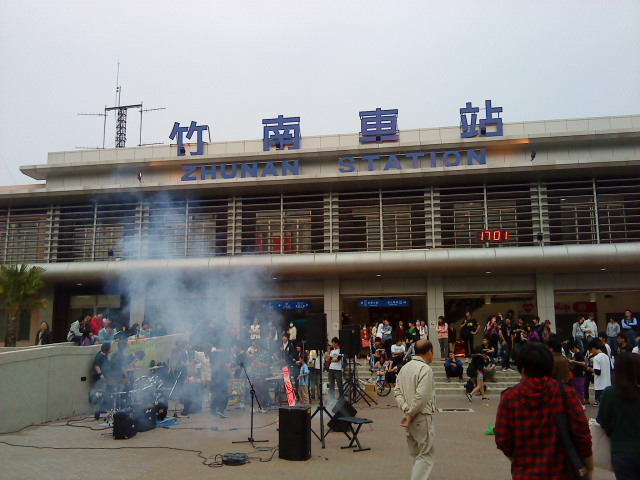 Zhunan Station.